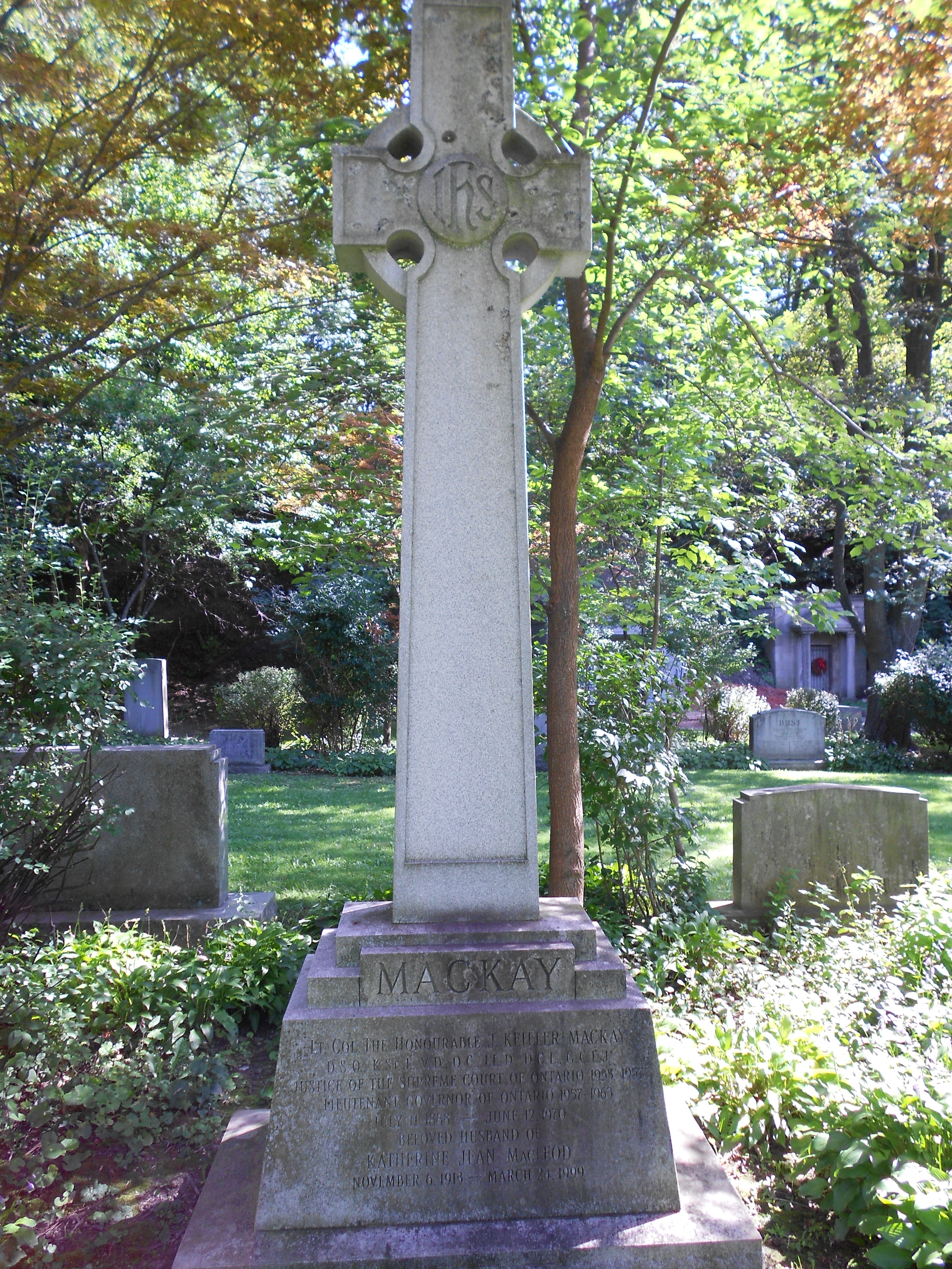 The gravestone marker for John Keiller MacKay the 19th Lieutenant Governor of Ontario, Vimy Ridge vetran, lawyer, Justice of the Supreme Court of Ontario, Member of the Order of Canada.